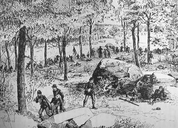 The 22nd Regiment Massachusetts Volunteer Infantry fighting on the Rose Farm during the Battle of Gettysburg on July 2, 1863